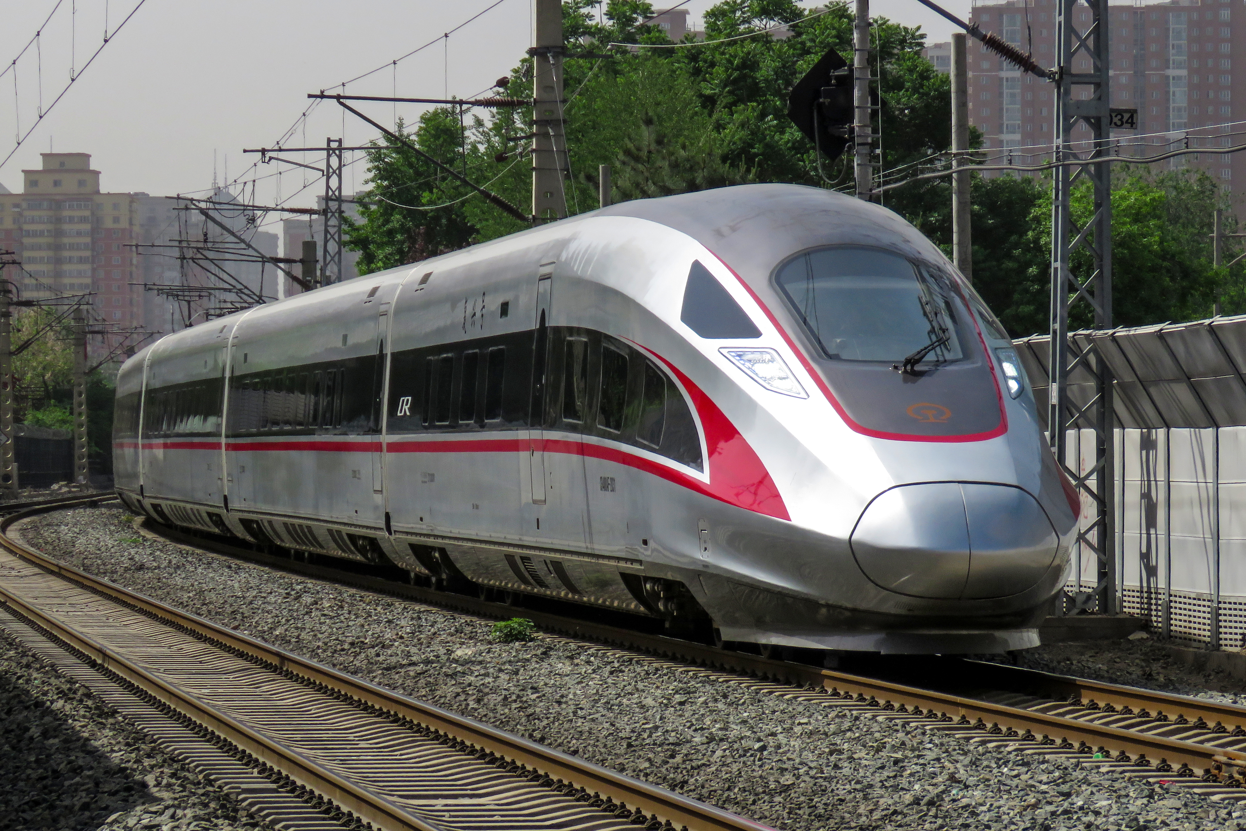 【伝説から神話へ -NONGFUSUO…AT LAST-】0G66 from depot.